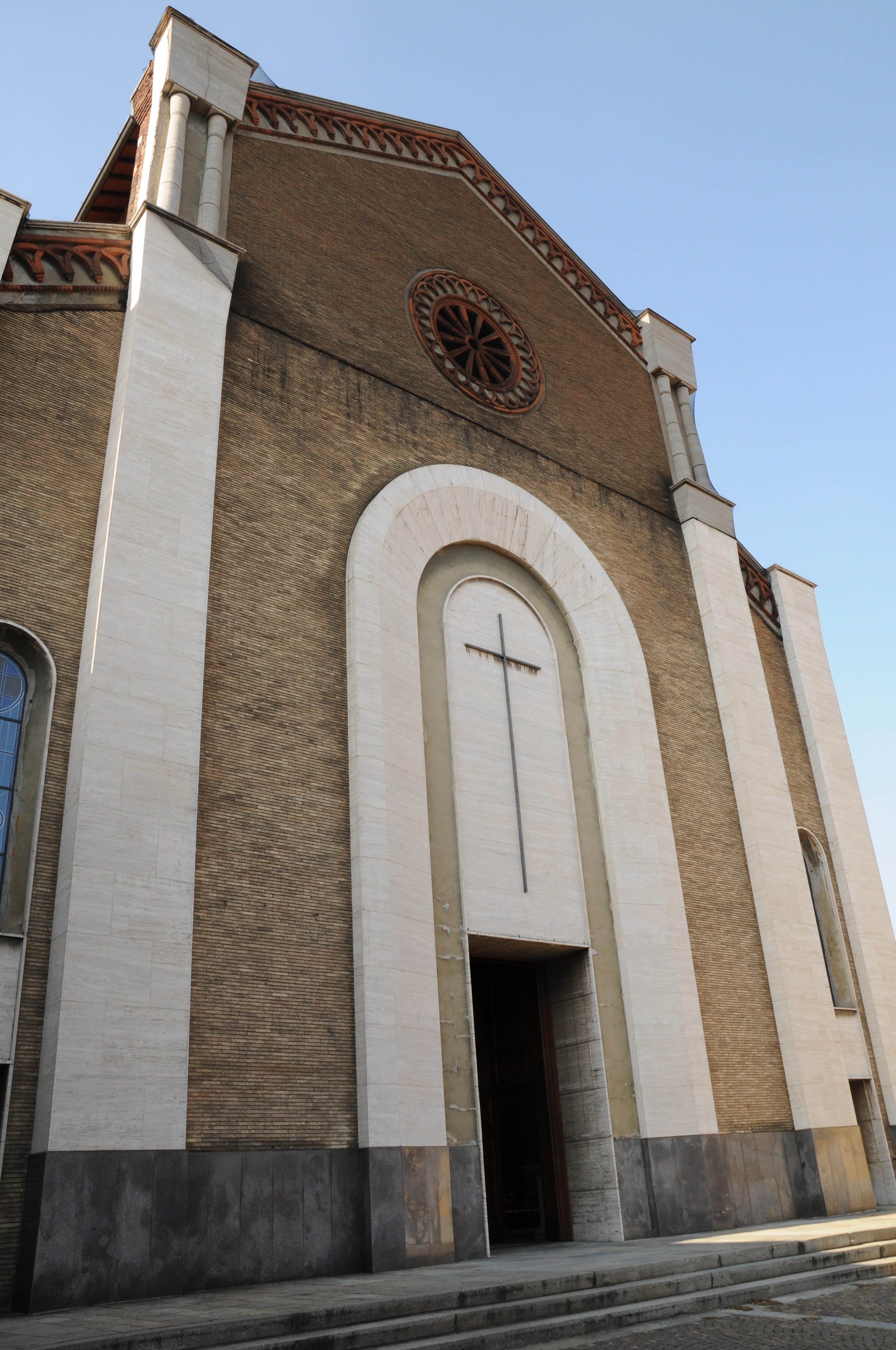 Santi Martiri Church in Legnano (Italy)